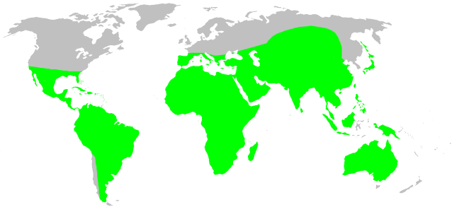 Hersiliidae habitat distribution, drawn after Platnick: World Spider Catalog 7.0. This is not a precise rendering of the distribution! If you have better information, please replace this map, or send me the info, and i will redraw it.